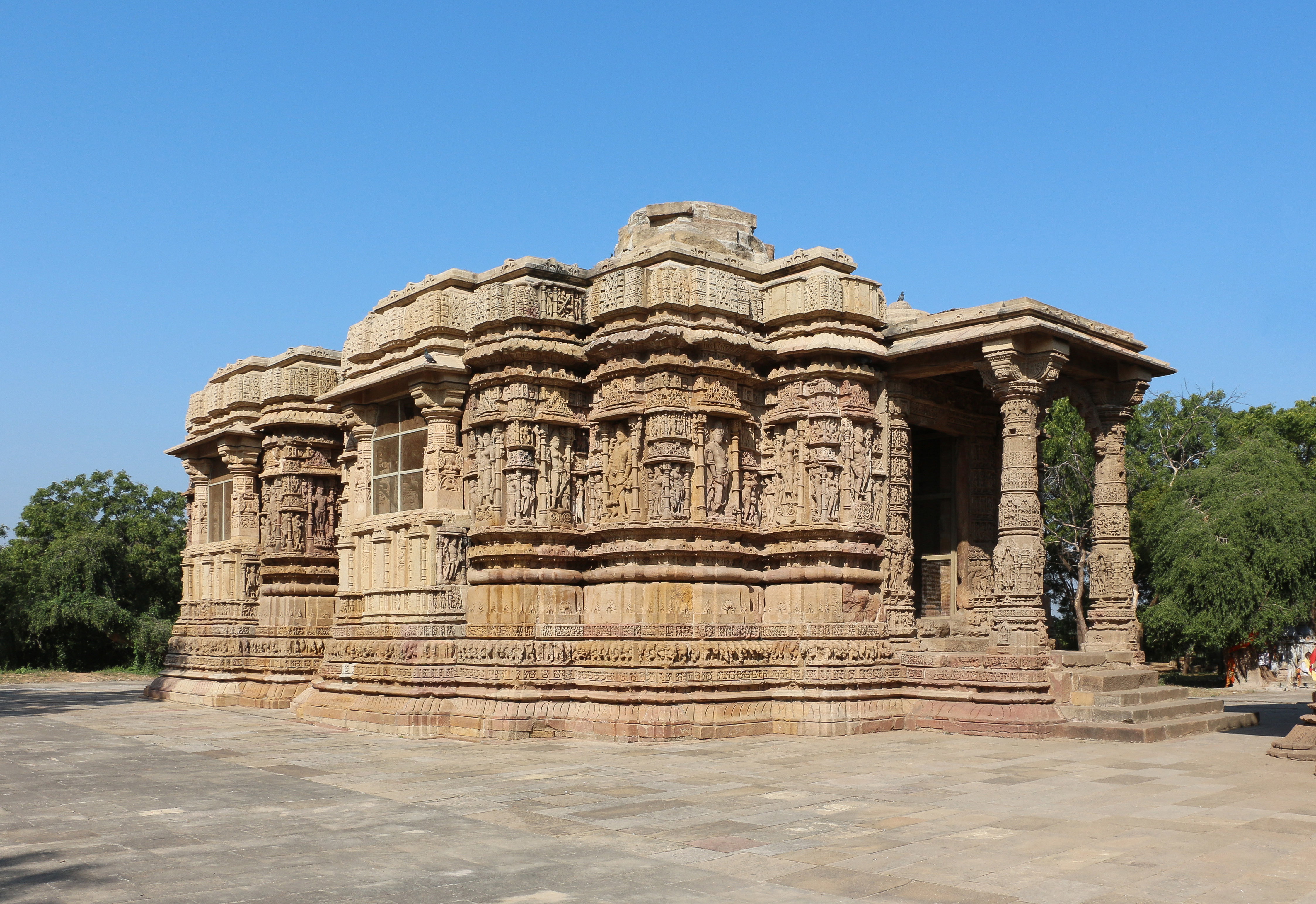 The Guda Mandap at the Sun Temple, Modhera, India